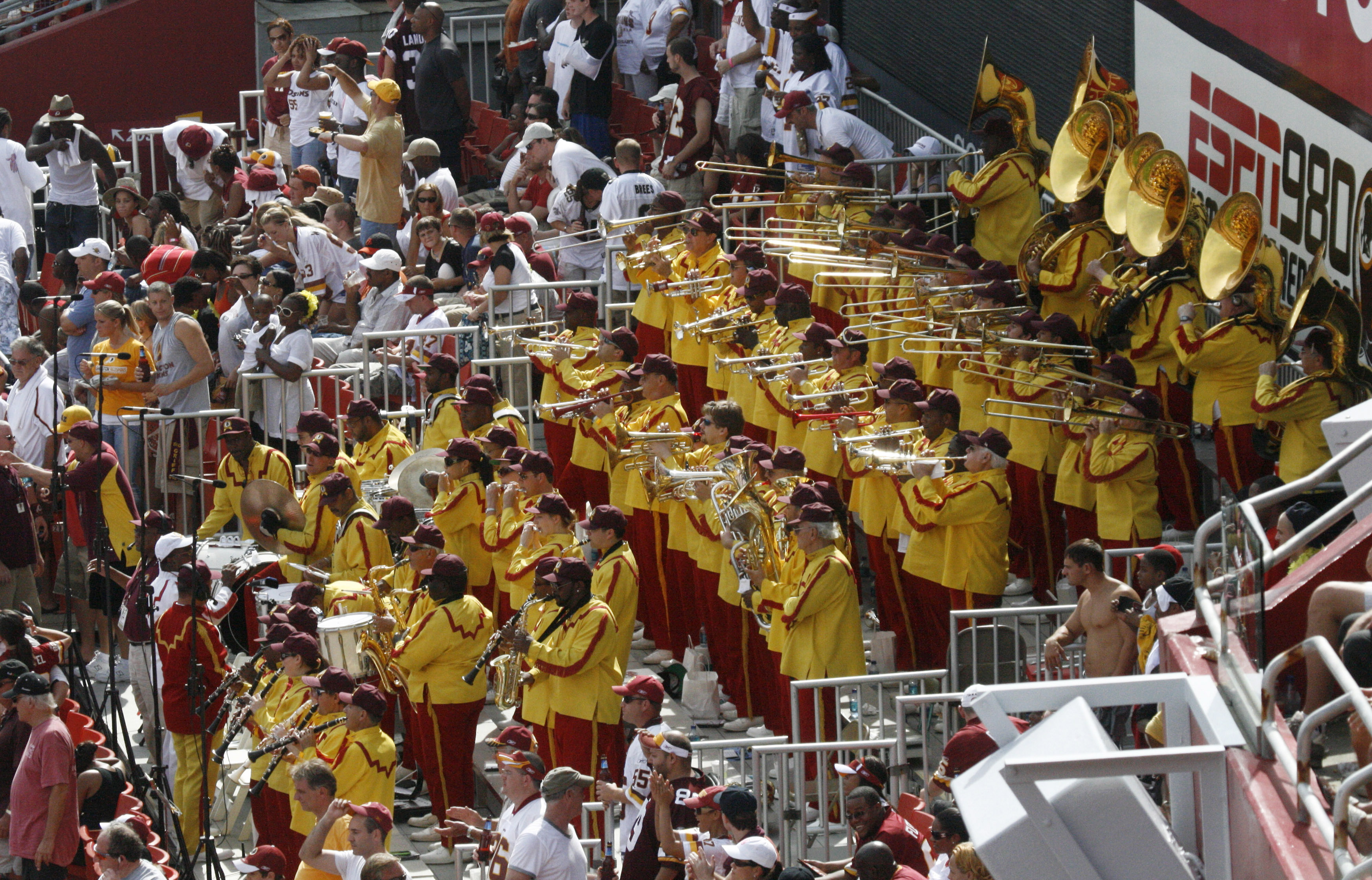 Washington Redskins marching band in FedExField in September 2008. They are one of only two marching bands in the NFL.